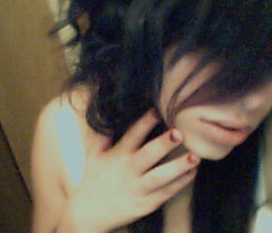 A picture depicting an emo hair style.